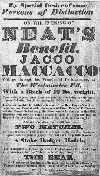 A broadsheet advertisement for a match between Jacco Macacco and a 19-pound bitch from around November 1821